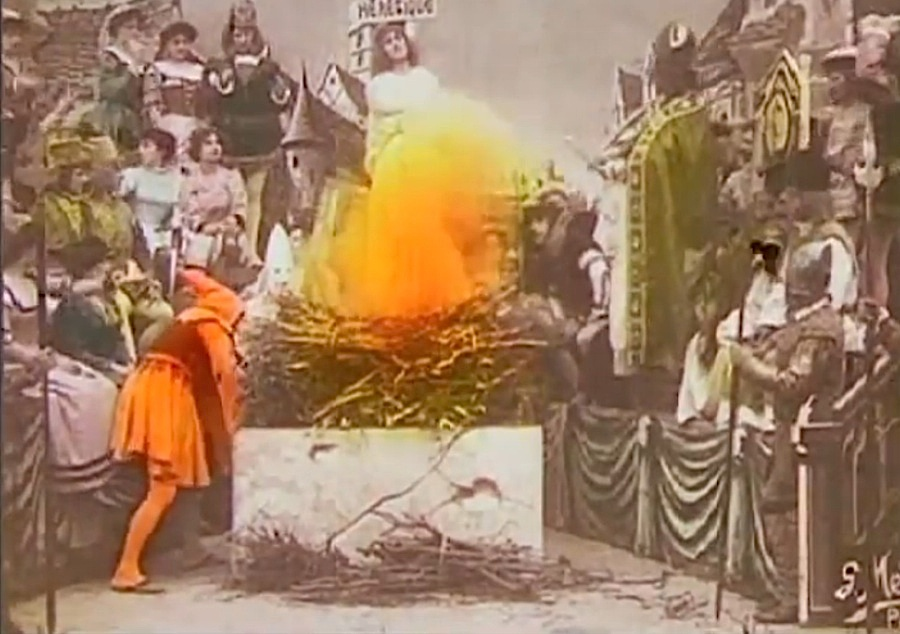 Jeanne d'Arc is a short silent film about Joan of Arc. The medieval film, released in 1900, was written and directed by Georges Méliès. It is one of the first color films. This is a still frame from near the end of the film.